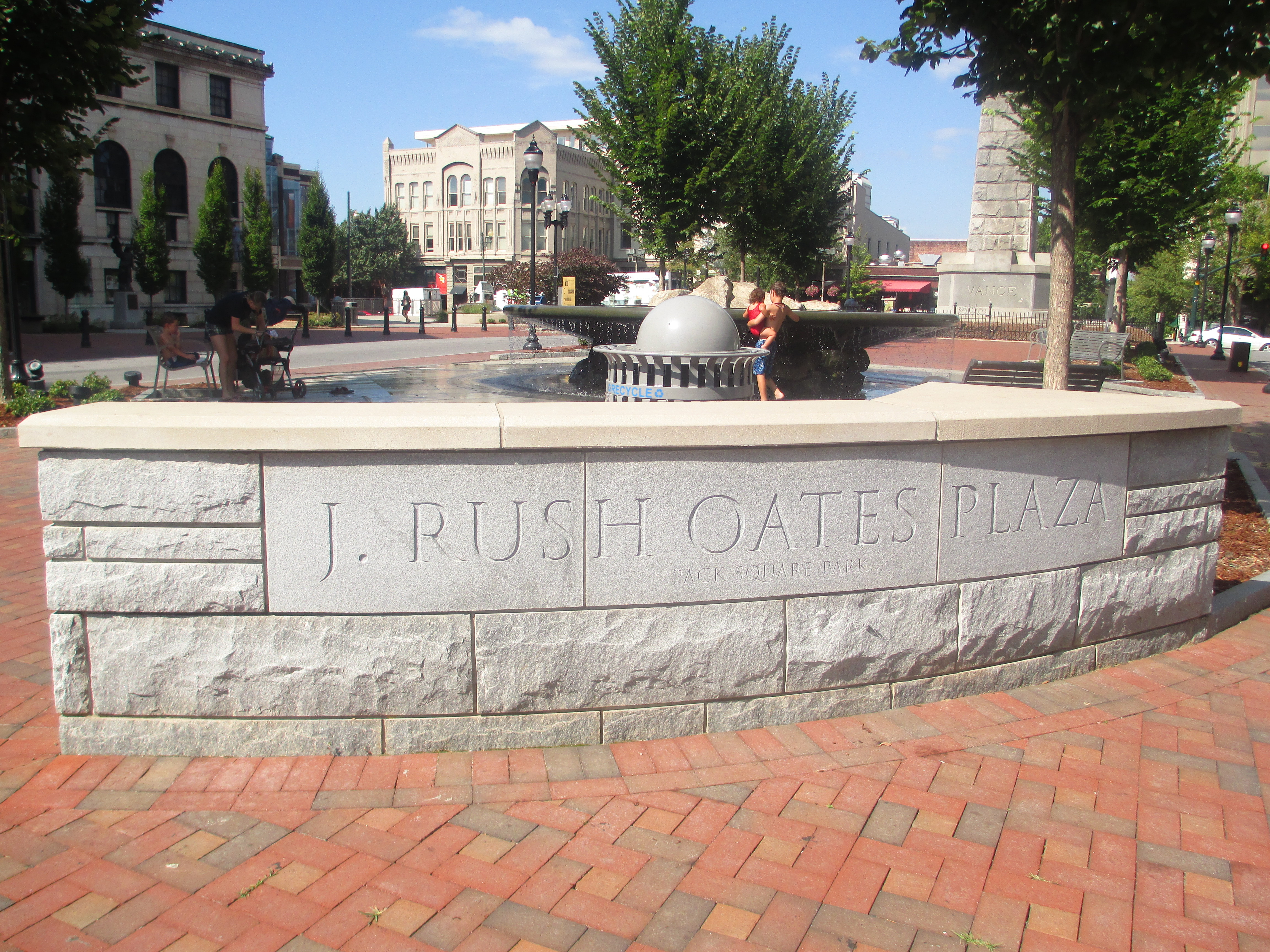 I took picture of J. Rush Oates Plaza in downtown Asheville, NC, with Canon camera.